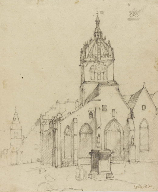 Drawing of the west front of St Giles' Cathedral, Edinburgh by Walter Geikie. The drawing dates to between the demolition of the Luckenbooths and Tolbooth in 1817 and the destruction of the Tolbooth spire (in the background) in 1824.